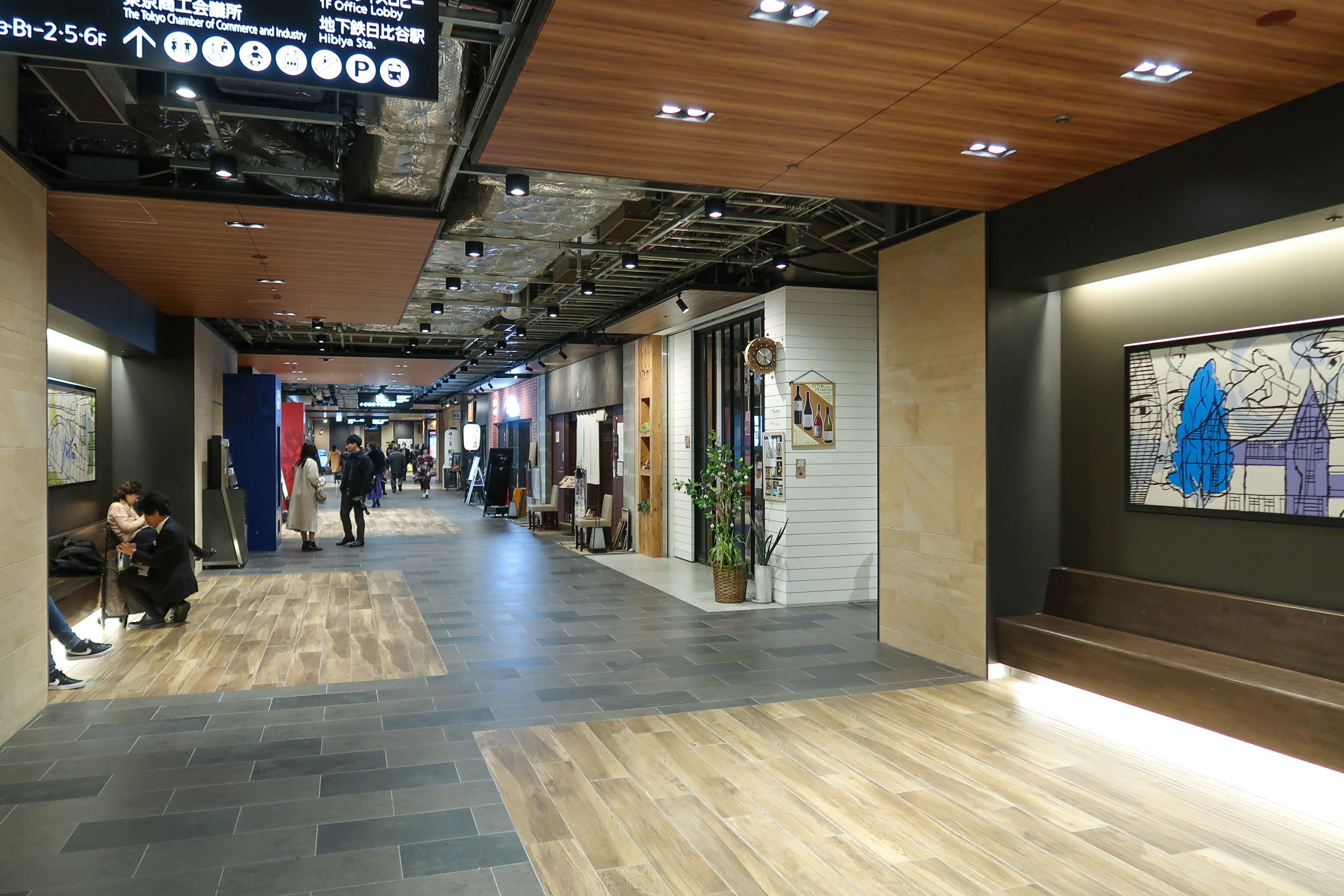 Marunouchi Nijūbashi Building Basement Arcade